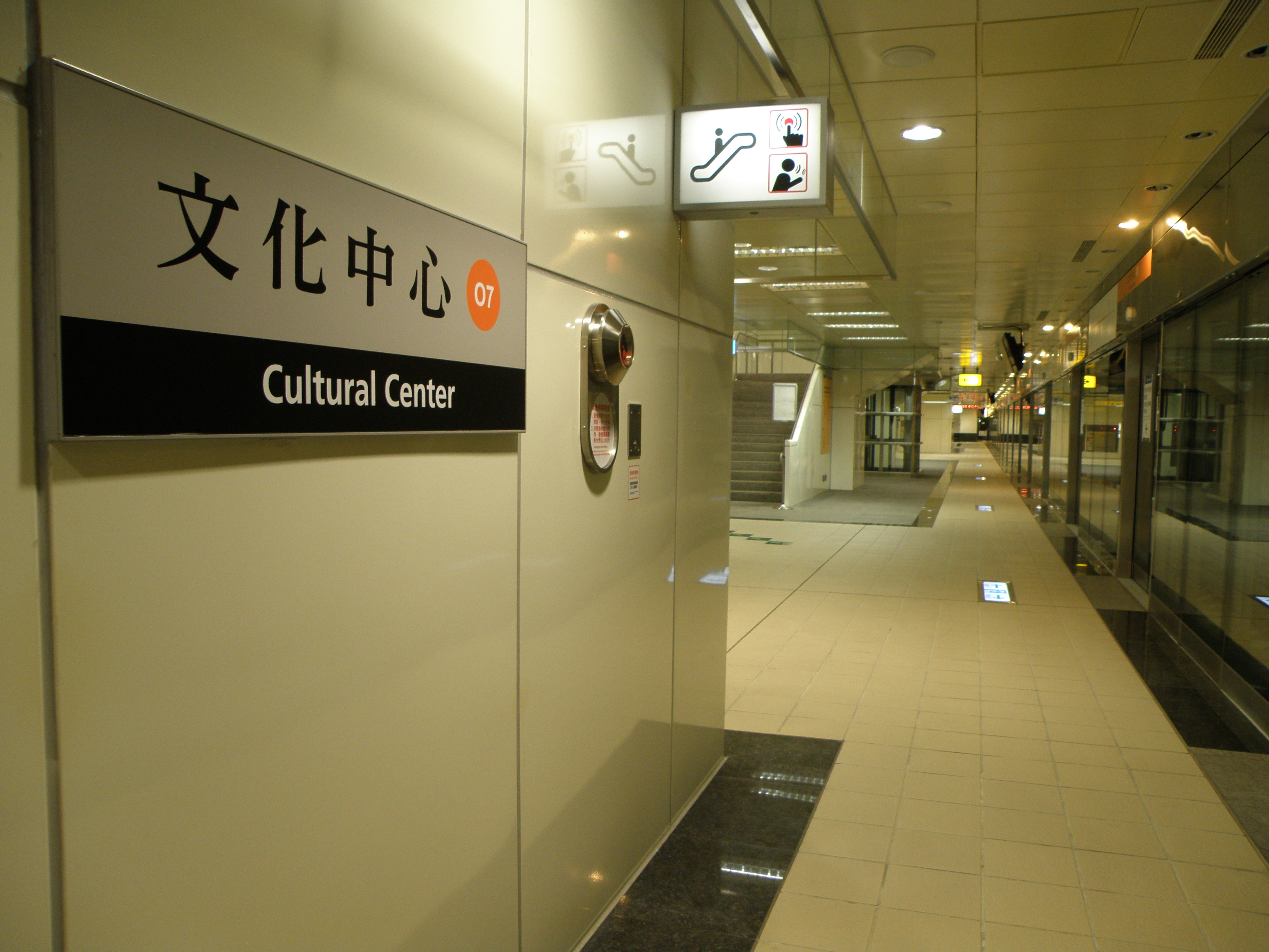 Platform of Cultural Center Station, Kaohsiung Mass Rapid Transit